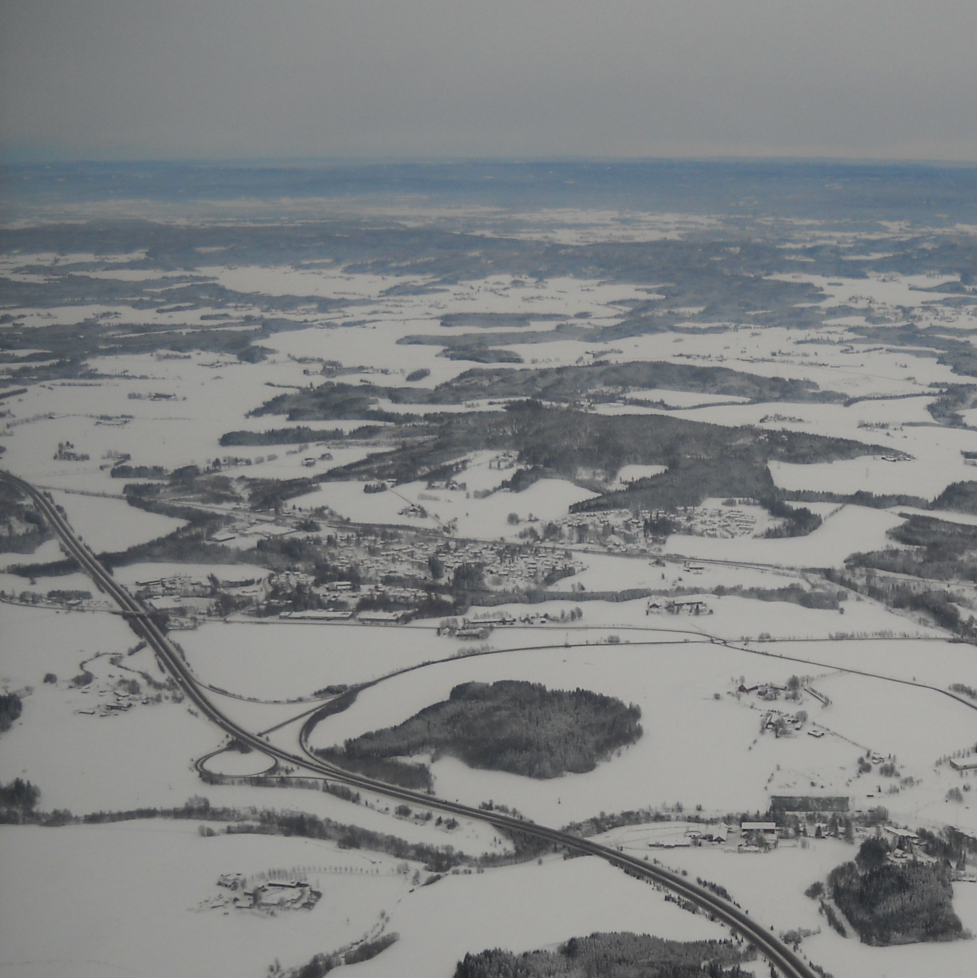 Norwegian Air Shuttle Boeing 737-800 under landing Gardermoen Airport Oslo